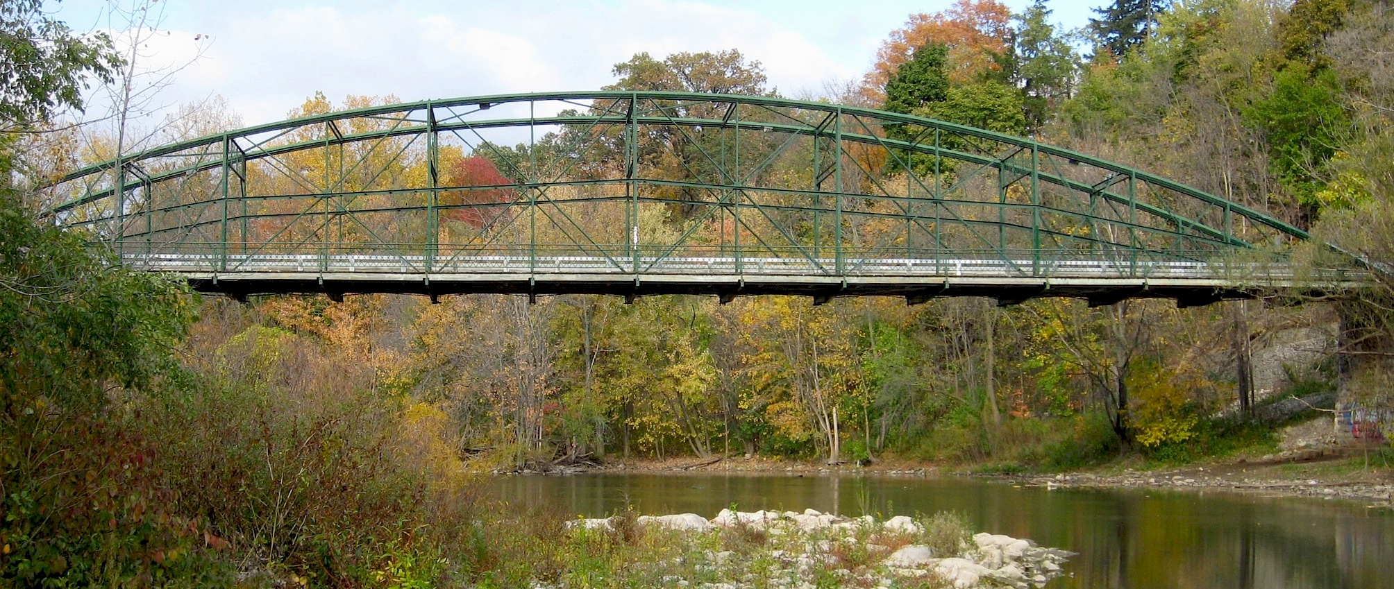 Replace image with a c. registered in Wikipedia Commons, as invited by editors.